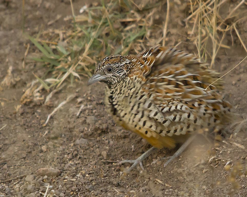 Male bird